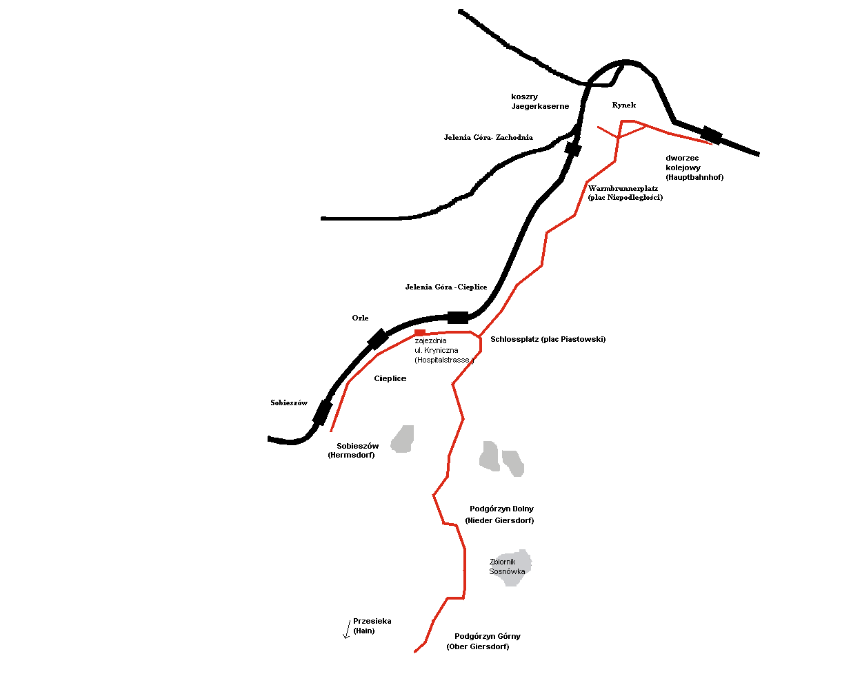 Former streetcar network in Jelenia Góra (Hirschberg).